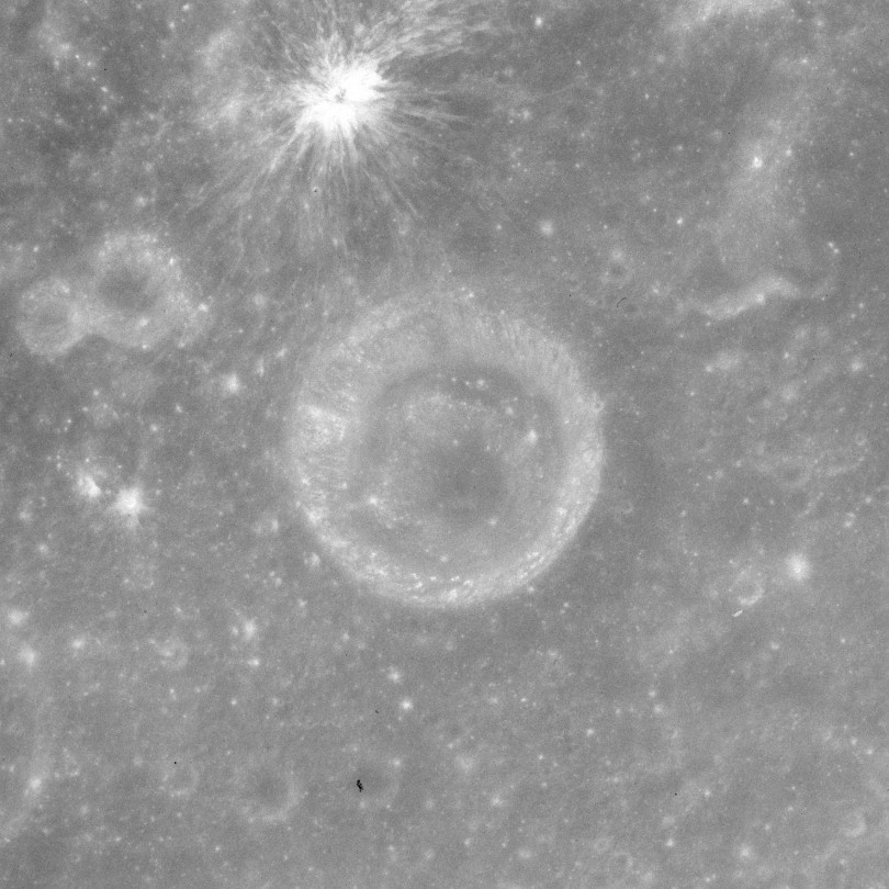 Leakey, on the moon. Altitude 116 km, sun elevation 83 deg.